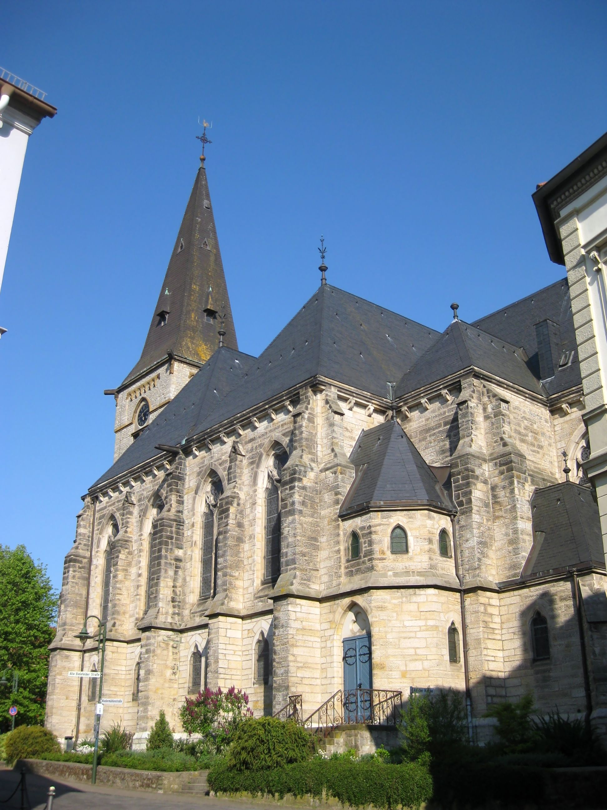 lutheran parish church in Melle-Neuenkirchen